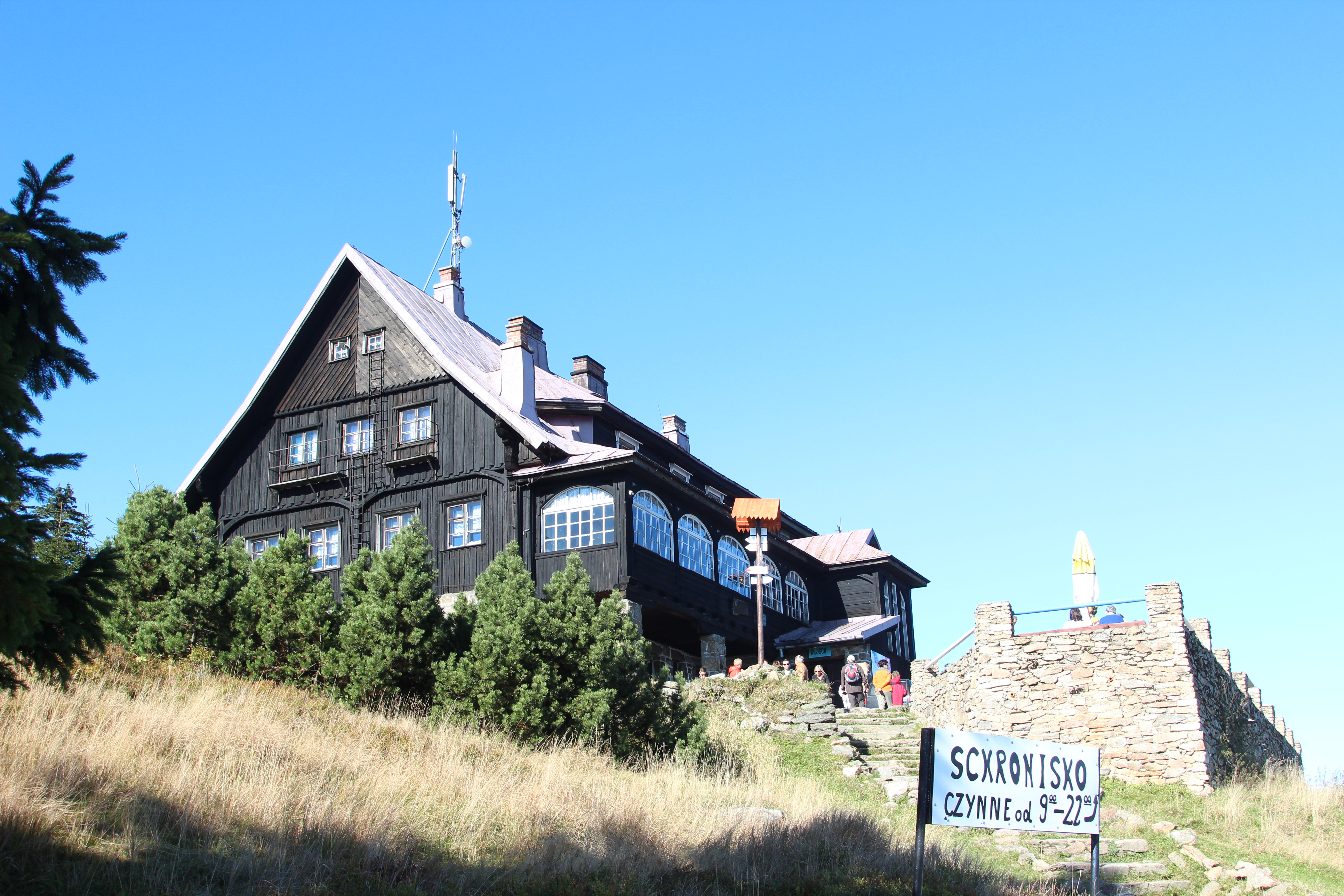 Stóg Izerski Hostel